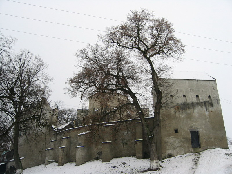 Made by me, December 2005.